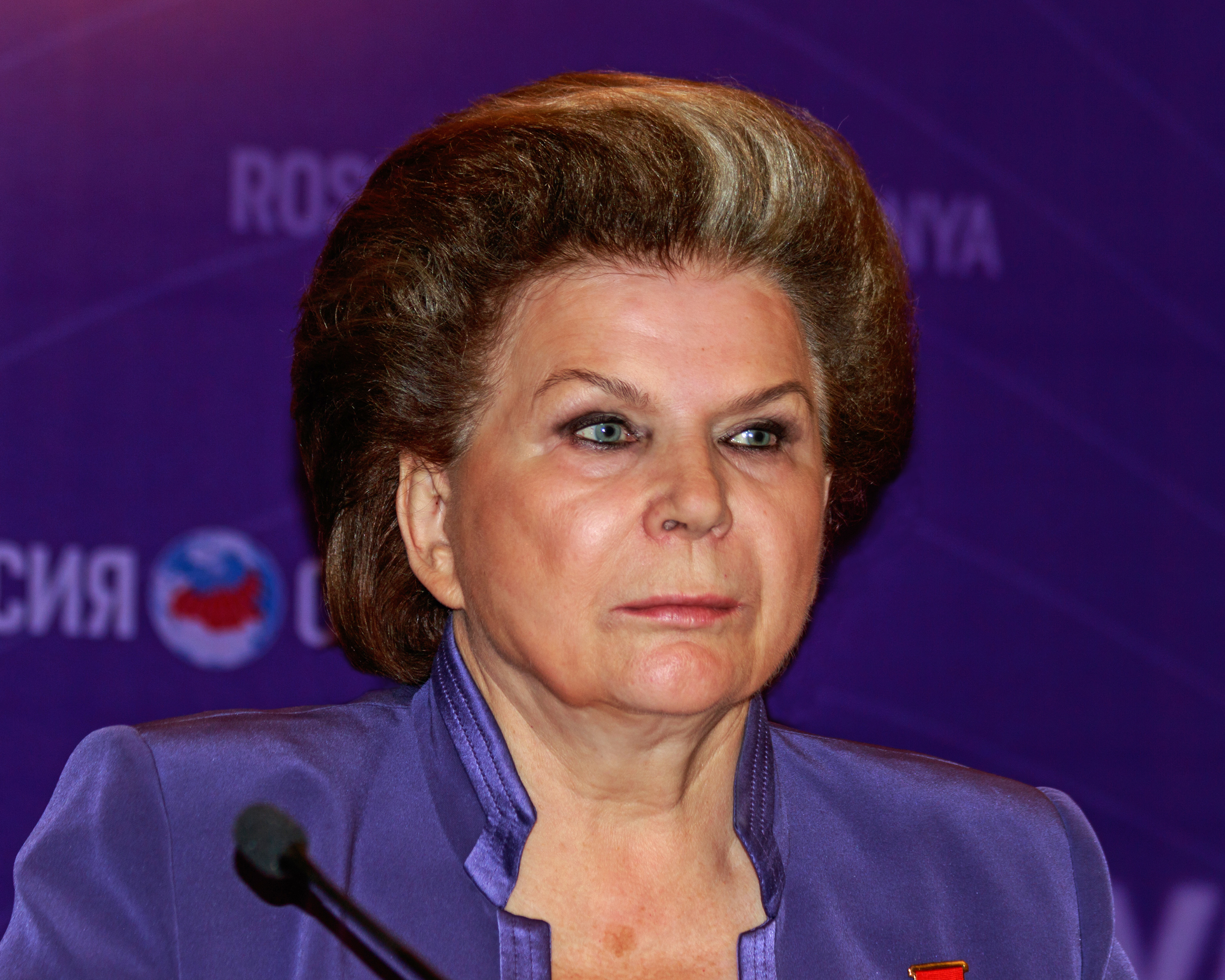 Valentina Tereshkova (b. 1937) is a Russian cosmonaut, Hero of the Soviet Union.